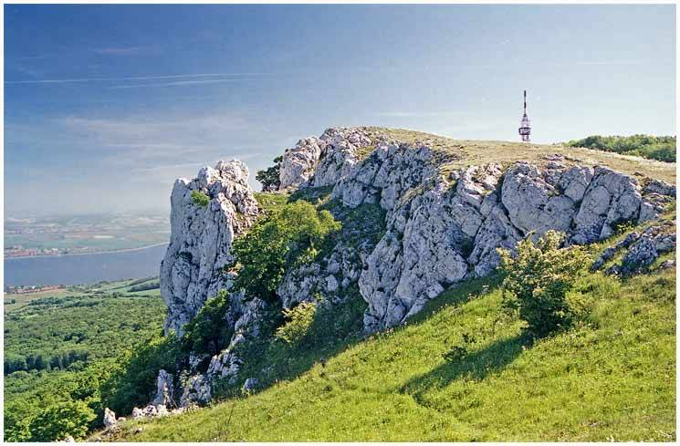 Photo of Děvín Hill in the Pálava Landscape Protected Area